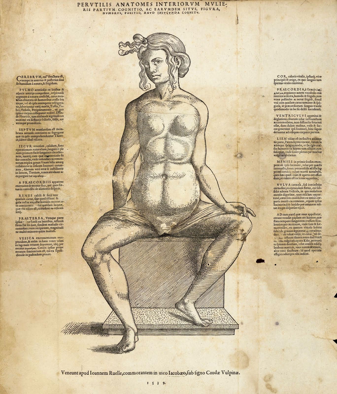 Anatomical fugitive sheet created by Jean Ruel (1474 -1537) and first published in Paris in 1539